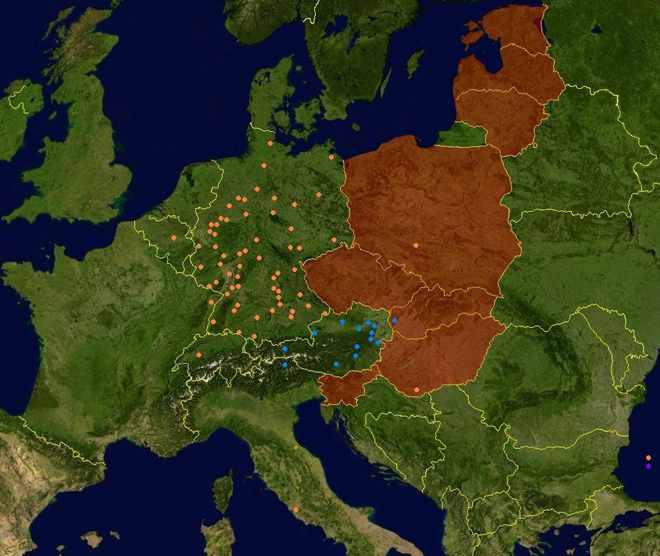 Locator map of Europe. Satellite-map of Europe incl. borders with color overlay.